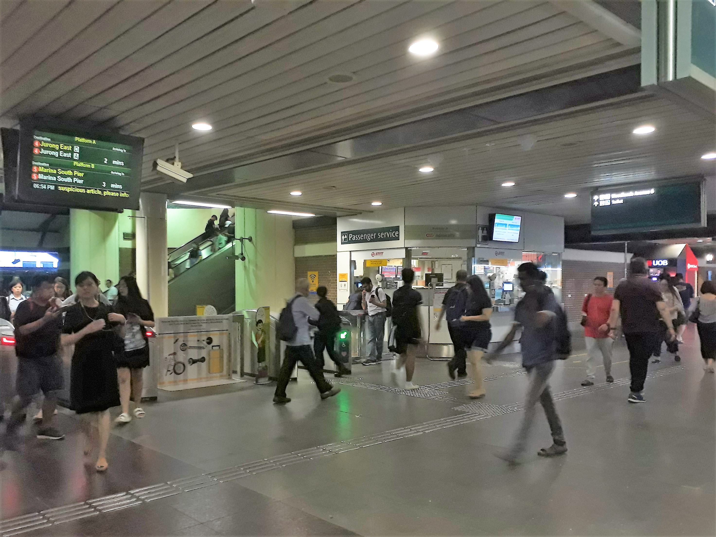 Admiralty MRT Exit